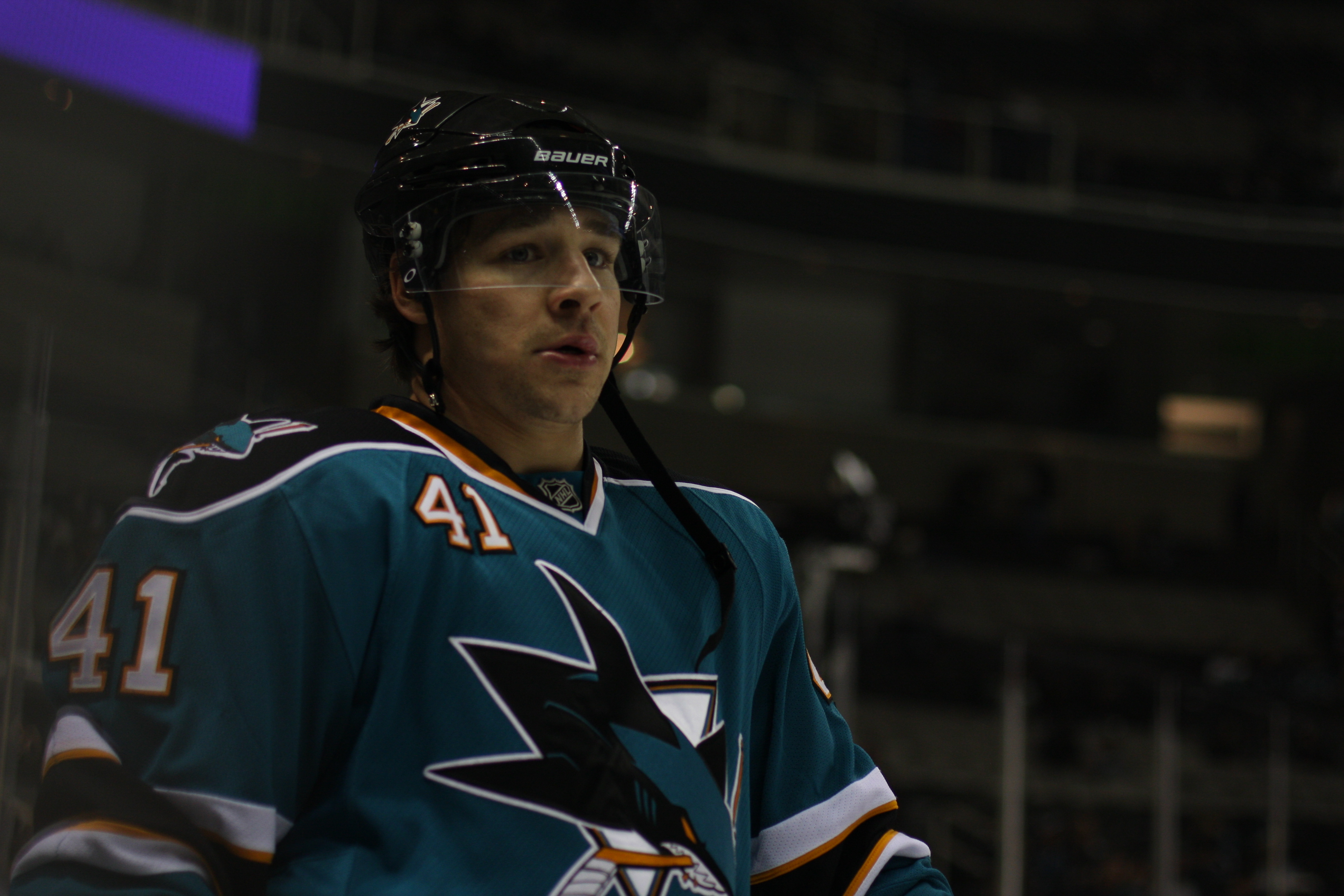 Jed Ortmeyer during the Pre-Game skate on December 5th, 2009 before taking on the Calgary Flames